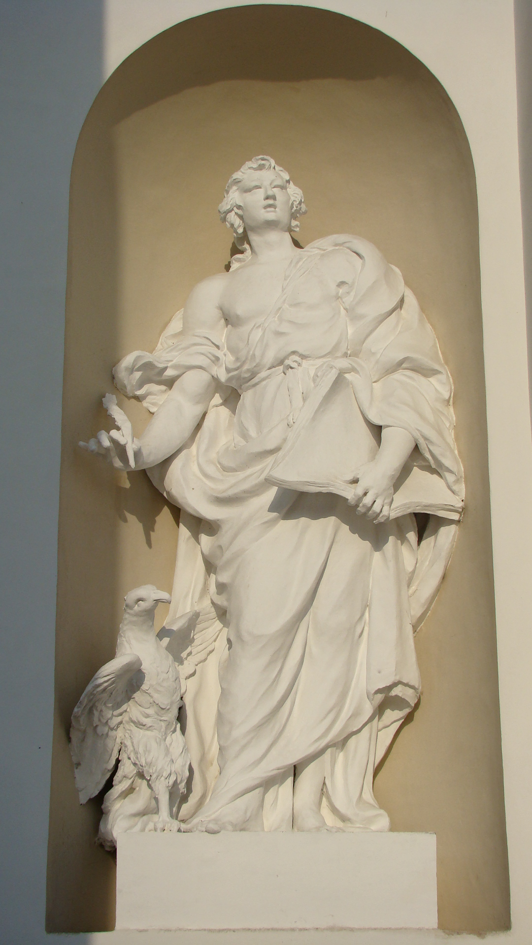 Statue of apostle John in Cathedral of St. Stanislaus and St. Vladislav in Vilnius